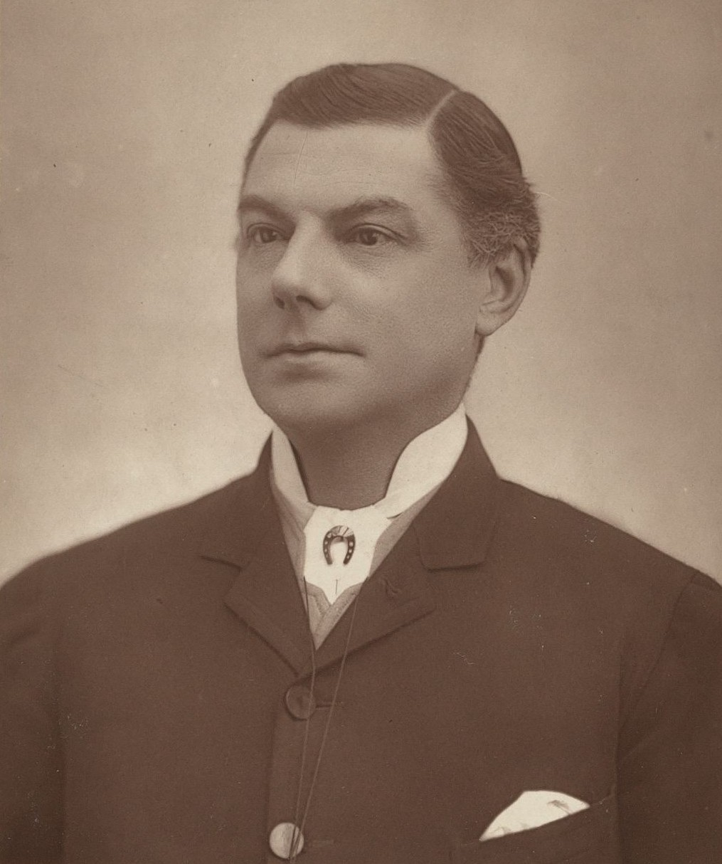 Cabinet card image of English actor and songwriter Charles Collette (1842-1924). The image includes a quote from "Bootles' Baby", in which he performed in 1888. Harvard Theatre Collection, TCS 1.5439, Harvard University